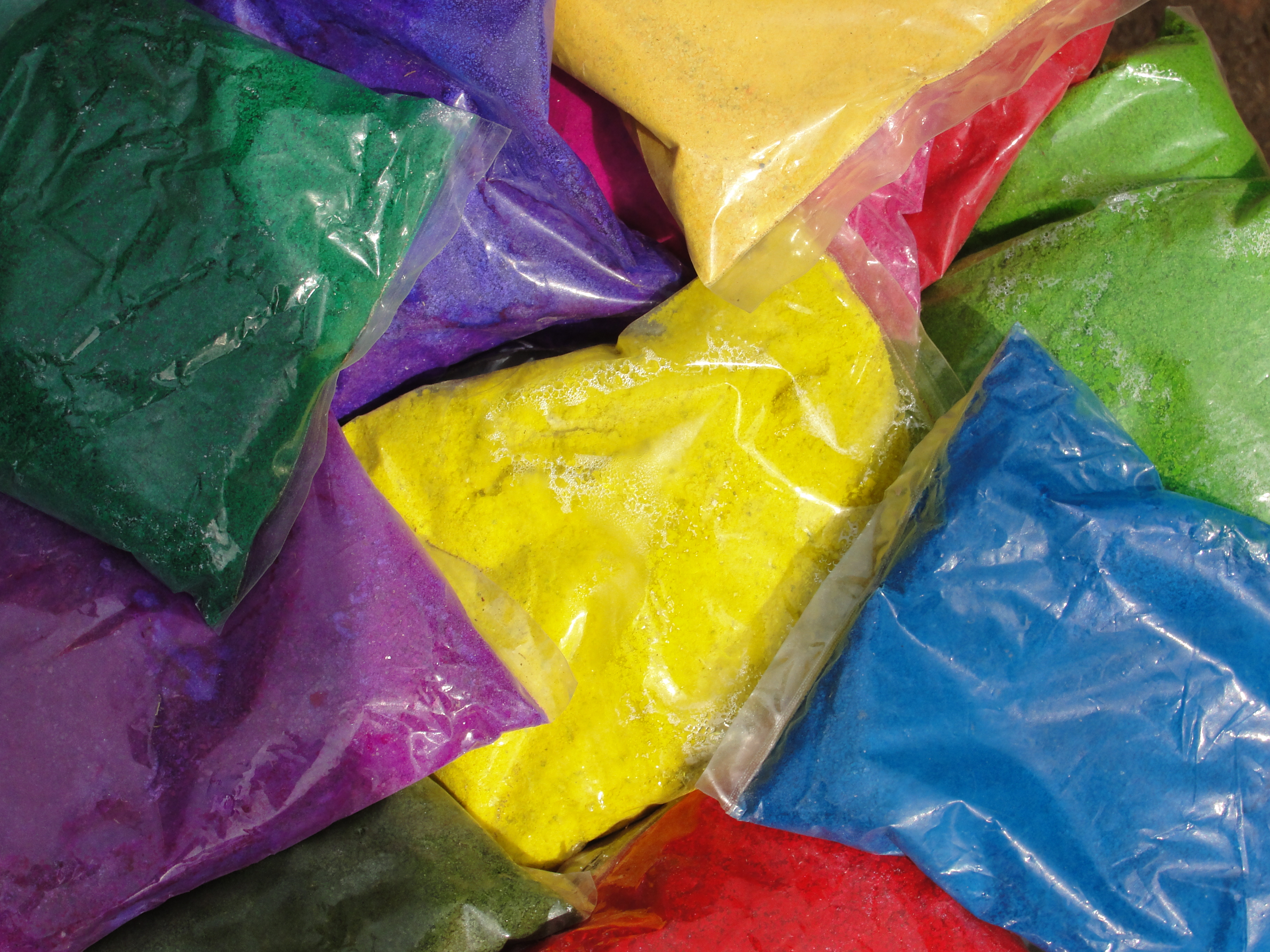 A scene of colour powder used to fill in Ornamental lines (kolam)